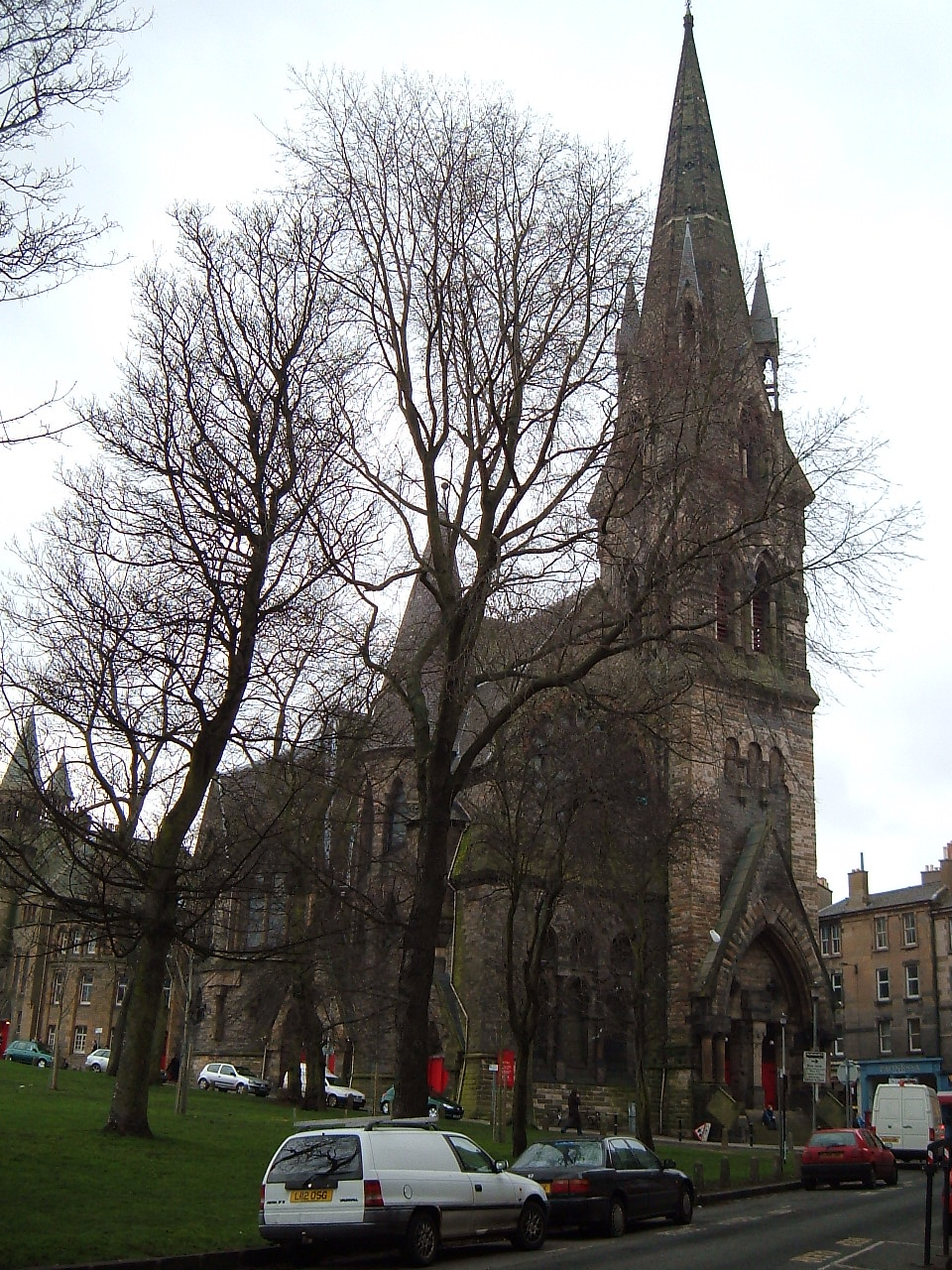 Barclay Church, Edinburgh, view from Glengyle Terrace, February 2006. Taken by User:Pilatus. Pilatus| 17:54, 6 February 2006 (UTC) Summary Barclay Church, Edinburgh, view from Glengyle Terrace, February 2006. Taken by User:Pilatus. Pilatus 17:54, 6 February 2006 (UTC)